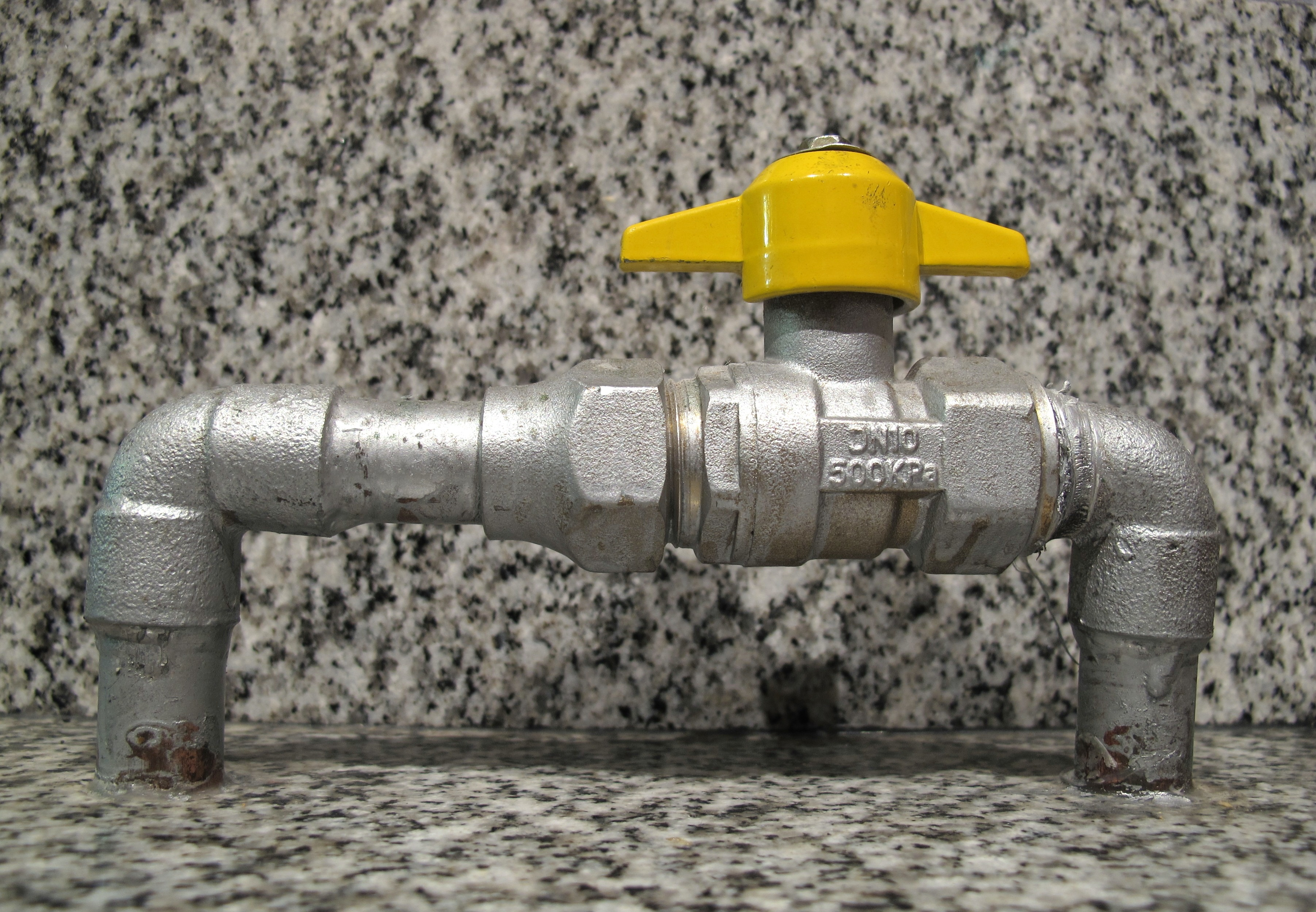 Gas tap in a kitchen of Santiago de Chile.